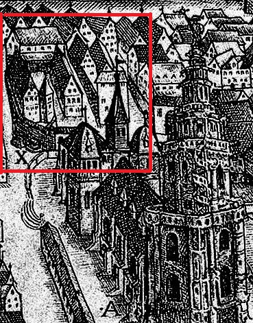 Kameralamt, 1658 Stadtansicht von Johann Sigmund Schlehenried.jpg